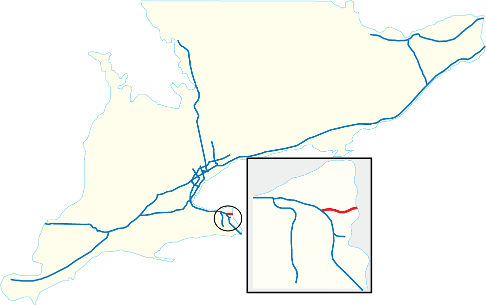 Highway 405 in Ontario